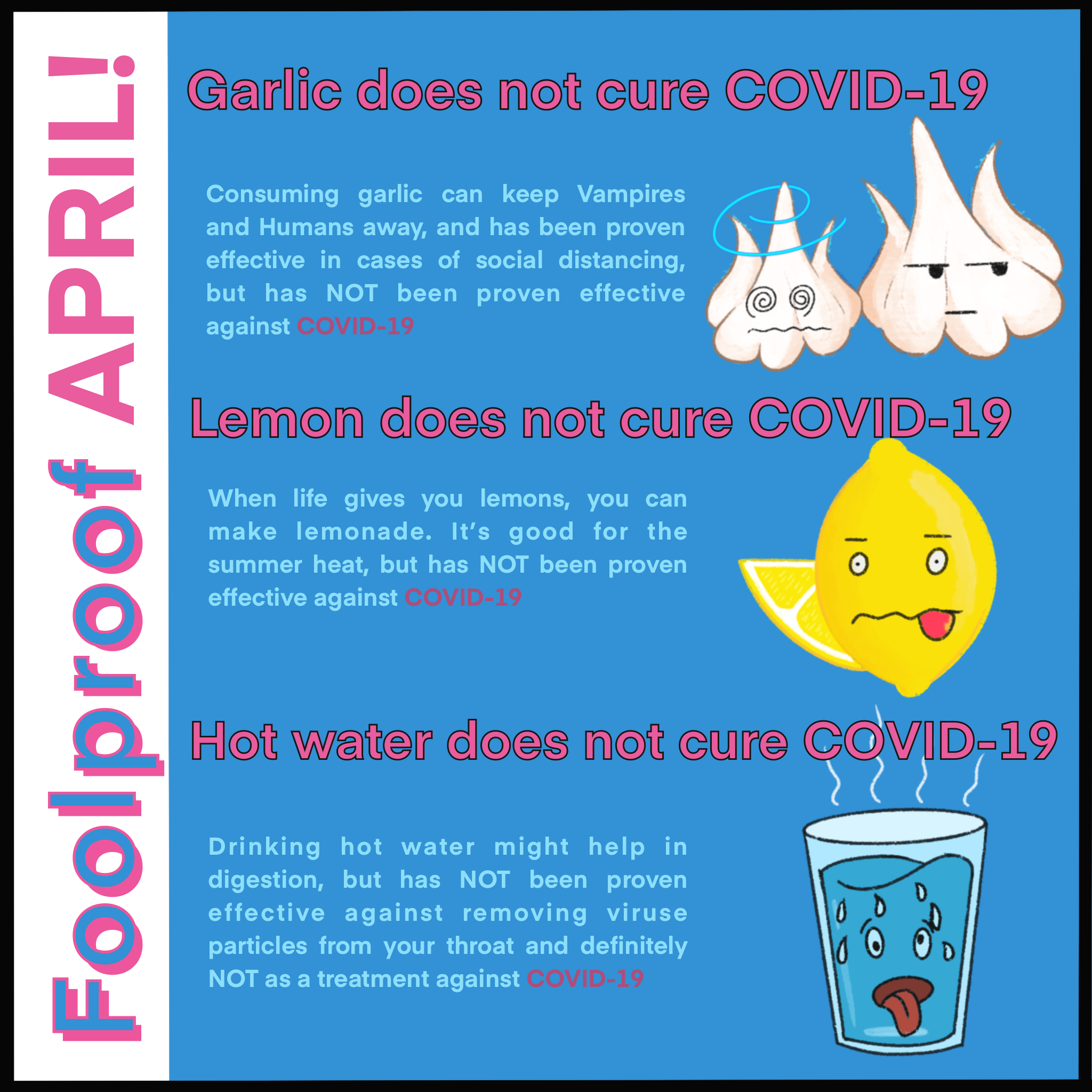 Foolproof April series- busting novel corona virus/Covid-19 myths- Image1